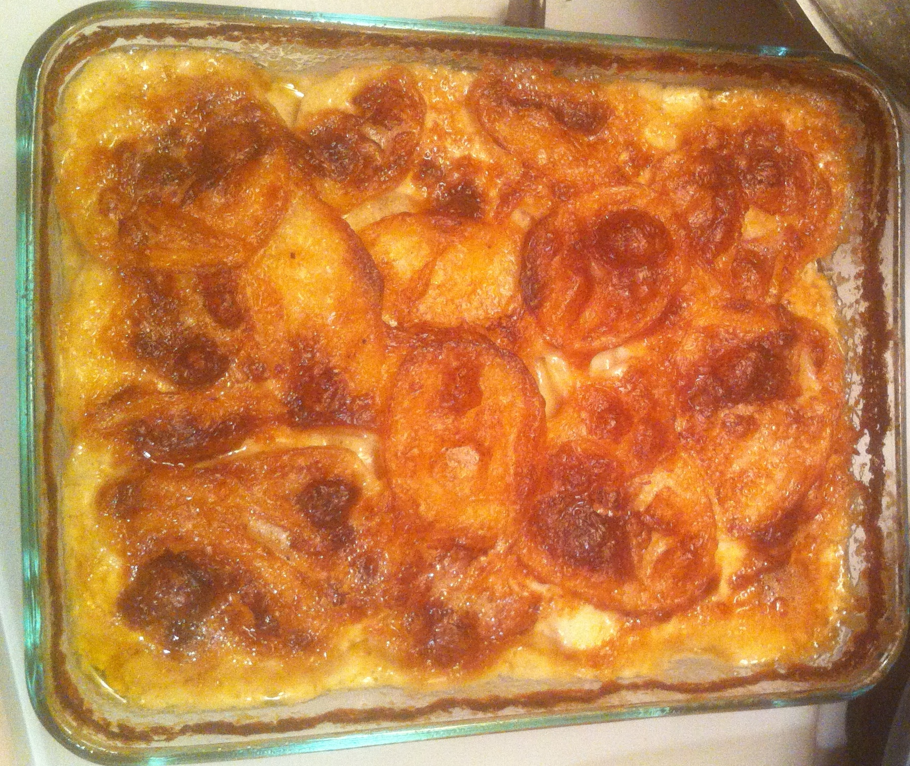 Potatoes gratiné is one of the most common of gratins. In North America, the dish is referred to variously as scalloped potatoes, potatoes au gratin, or au gratin potatoes.